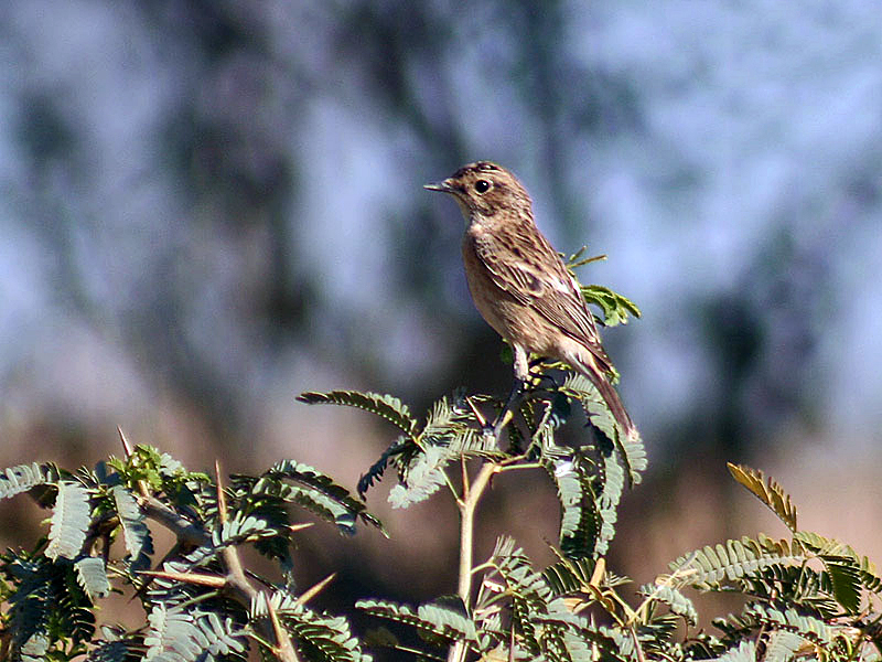 Siberian Stonechat Saxicola maurus at Hodal in Faridabad District of Haryana, India.